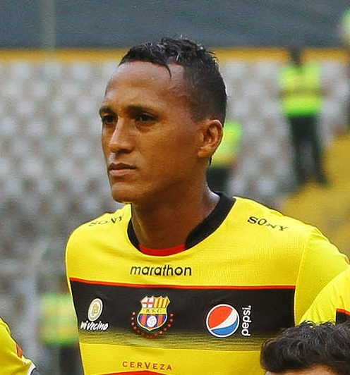 José Luis Perlaza. Guayaquil, Martes 3 de marzo del 2015 (ANDES).-Barcelona enfrenta a Libertad de Paraguay en su primer partido por Copa LibertadoresFoto:César Muñoz/ANDES